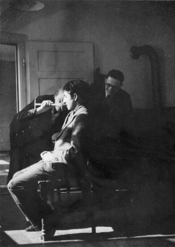 Eva Justin [?] and Dr. Adolf Würth (anthropometry, craniometry) measuring the head of a young Sinto, sitting on a chair in a room with oven